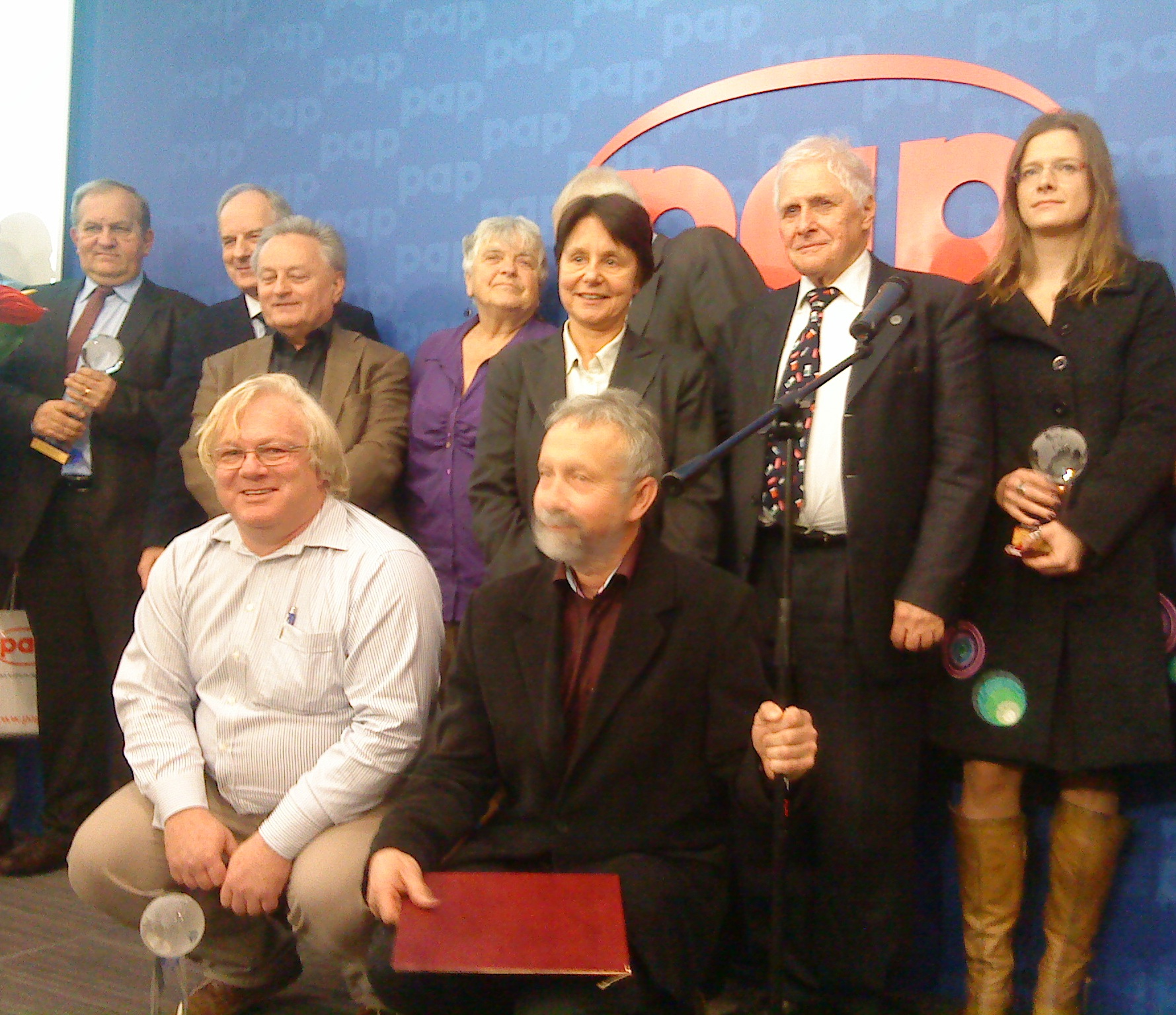 Jury and awarded in the competition "Science Popularizer 2012" organised by the Polish Press Agency and the Ministry of Science and Higher Education. From the left: Adam Maj, N.N., Andrzej Gorzym, Lech Mankiewicz, Magdalena Fikus, Ewa Kulczykowska, Marek Kulczykowski, Jerzy Vetulani, Katarzyna Górak-Sosnowska.